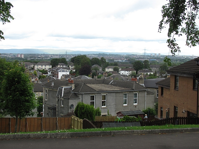 Limeside Avenue